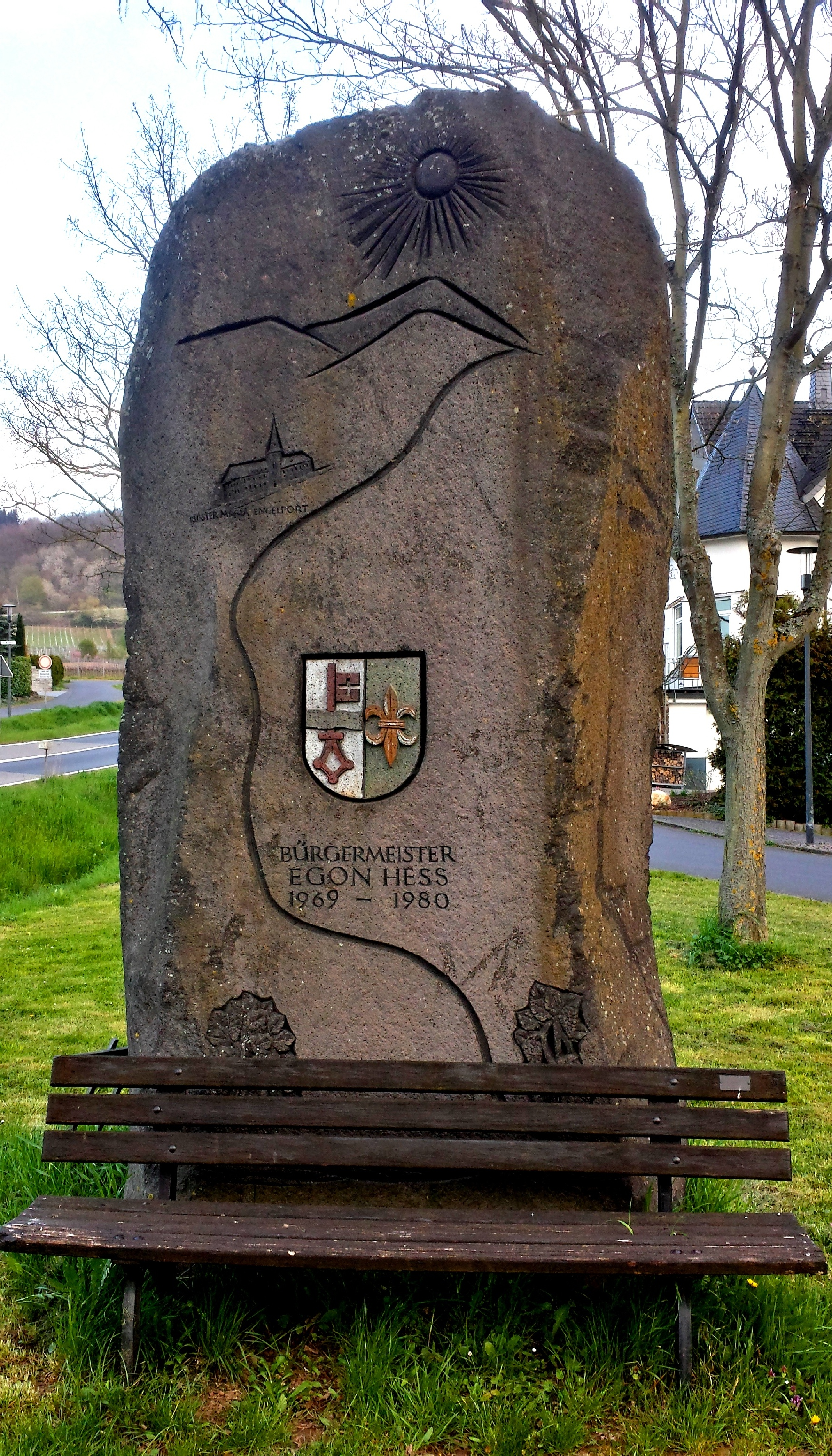 Memorial Stone in Bruttig-Fankel for the former mayor from 1969 to 1980 Egon Hess